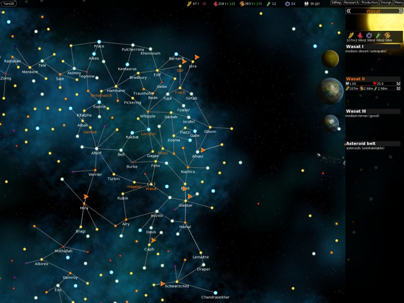 Screenshot from v0.3.9 with updated art from revision 2562